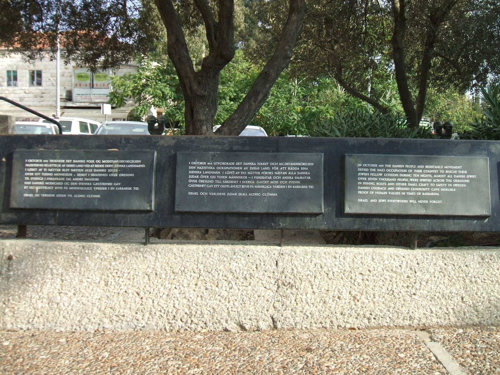 Memorial in Denmark Square, Jerusalem. Text in Danish, Swedish and English.